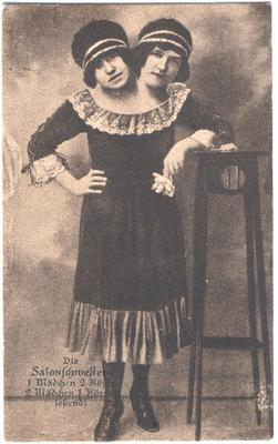 Vintage postcard of "two-headed woman" from the freak show ("she" of "they" can be fake). The caption reads: :"Die Salonschwestern :1 Mädchen 2 Köpfe :2 Mädchen 1 Körper :lebend!" which translates to: :"The Salon sisters :1 girl 2 heads :2 girls 1 body :alive!"